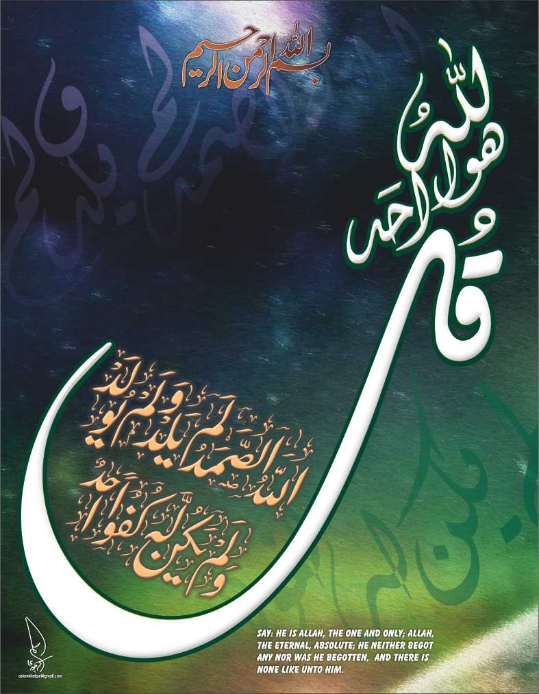 Surah Ikhlas in Lahori Nastalique, Calligraphy by Aslam Kiratpuri